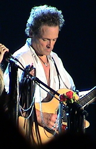 Lindsey Buckingham, Fleetwood Mac